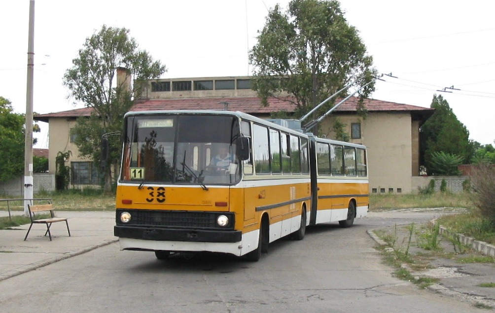 Timişoara trolleybus 38, a 1985 Ikarus 280T, was ex-Weimar (Germany) 204, acquired secondhand in 1996. It was retired/withdrawn in Timişoara in 2007 or 2008.